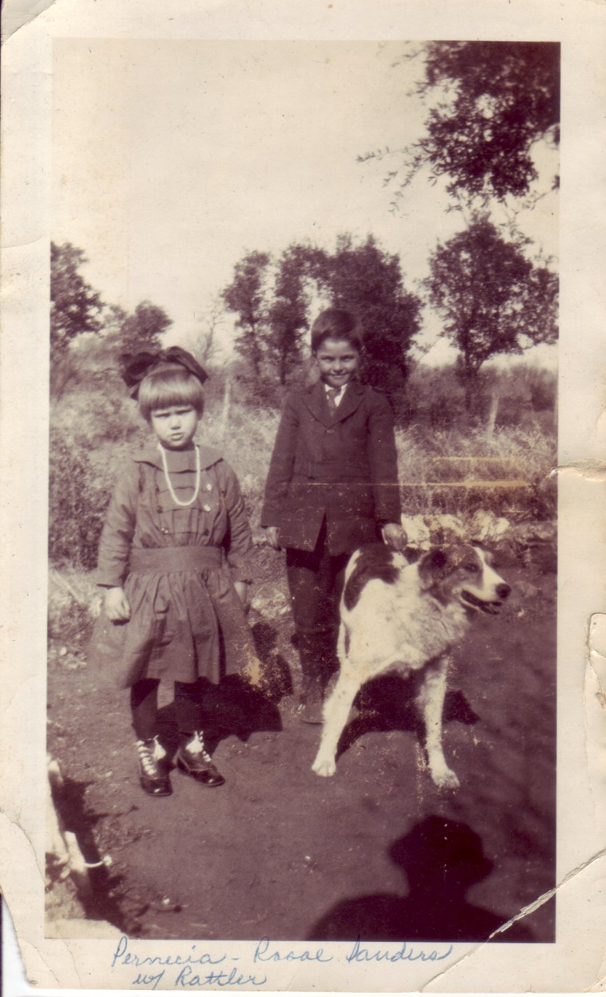 Rattler in Mason Texas with the Sanders children.